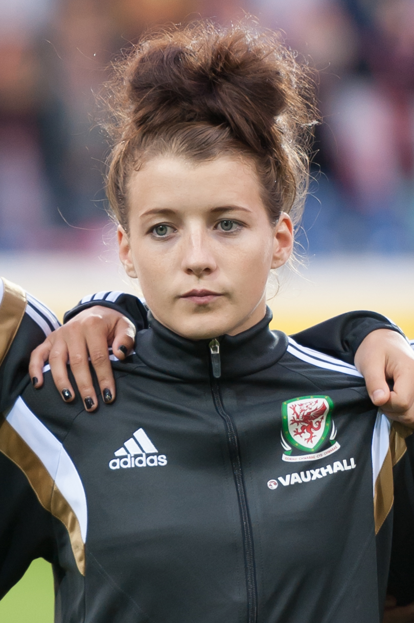 Women's Euro Qualification Austria vs. Wales, 2015-09-22, St. Pölten, Lower Austria